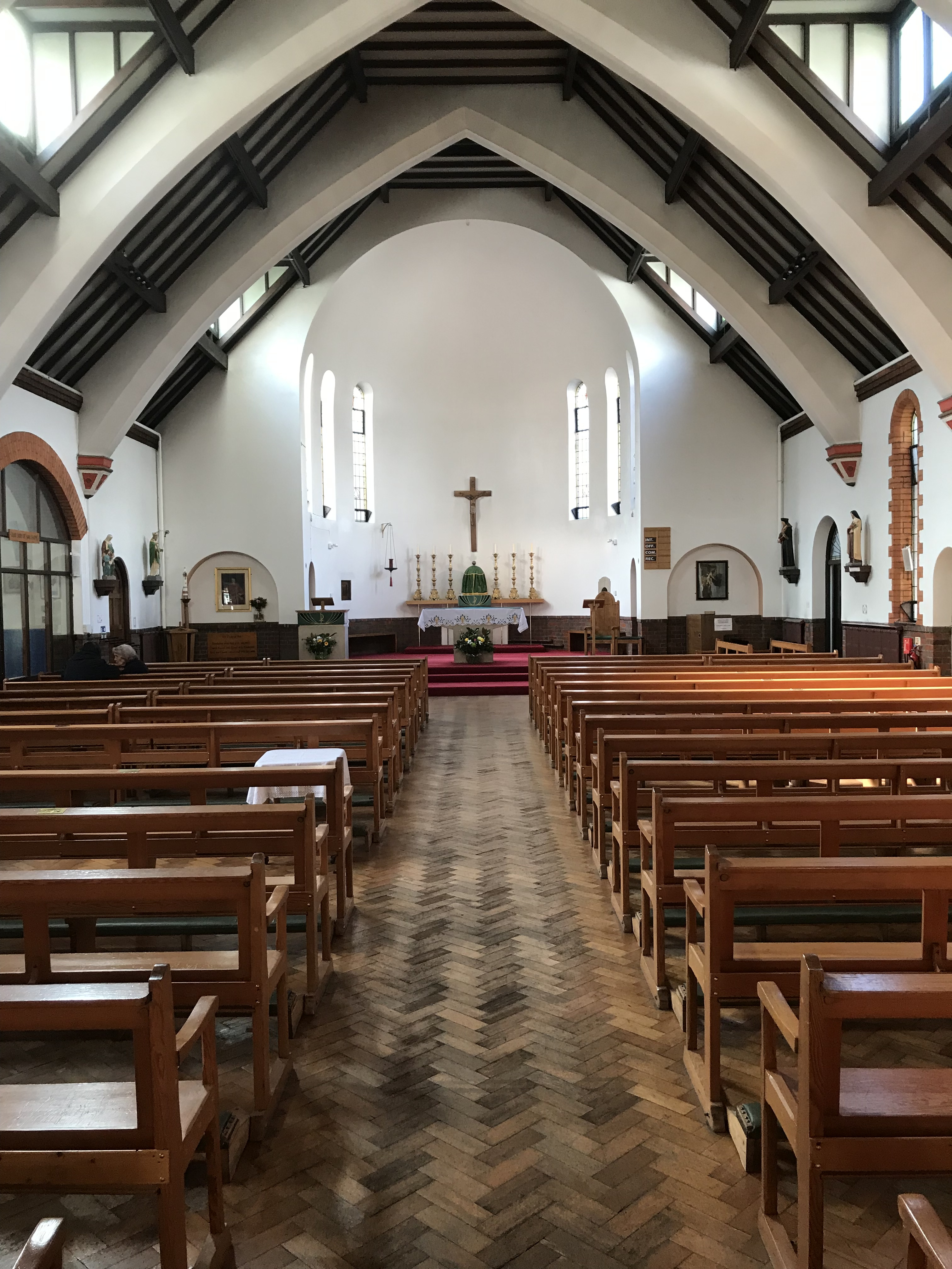 View down the nave towards the Sanctuary in the church of Our Lady of Hal on Arlington Road in Camden Town